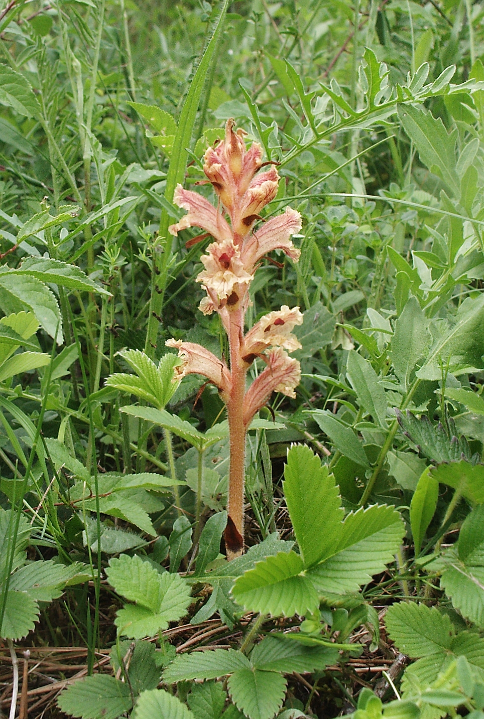 Orobanche alba, Tauberland, Germany